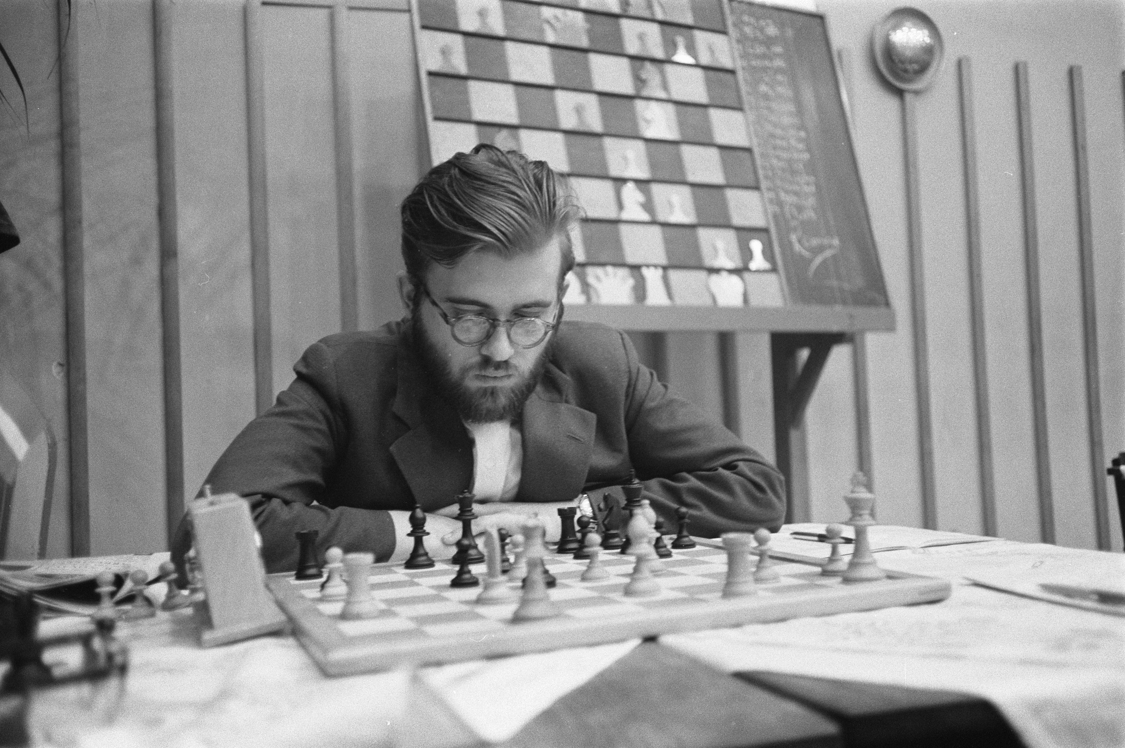 Bent Larsen playing as Black against Ernő Gereben, Hoogoven Chess Tournament (NL), 22 January 1961